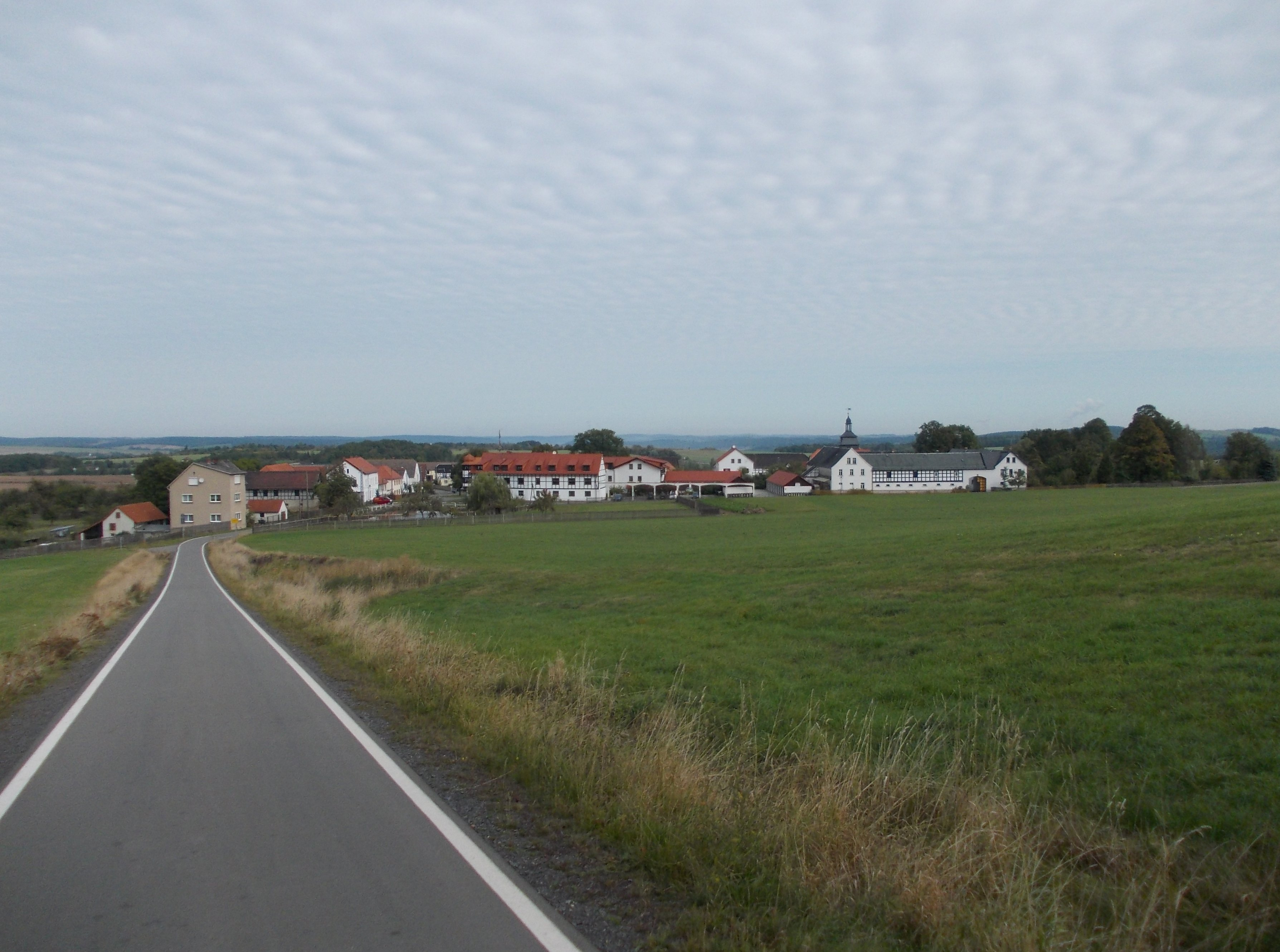 The village of Teichwitz (Greiz district, Thuringia) from the south